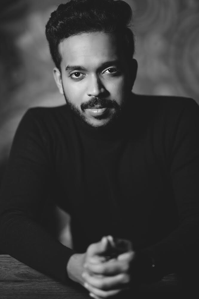 KS Harisankar